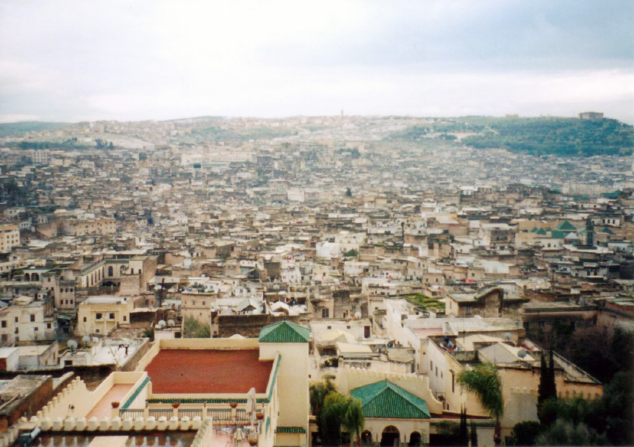 City of FezCity of Fez